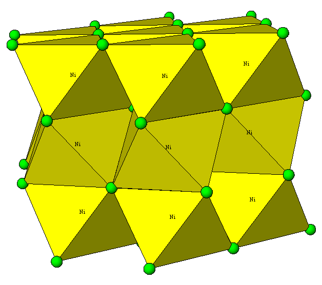 Structure of the nickeline described as NiAs6 octahedra